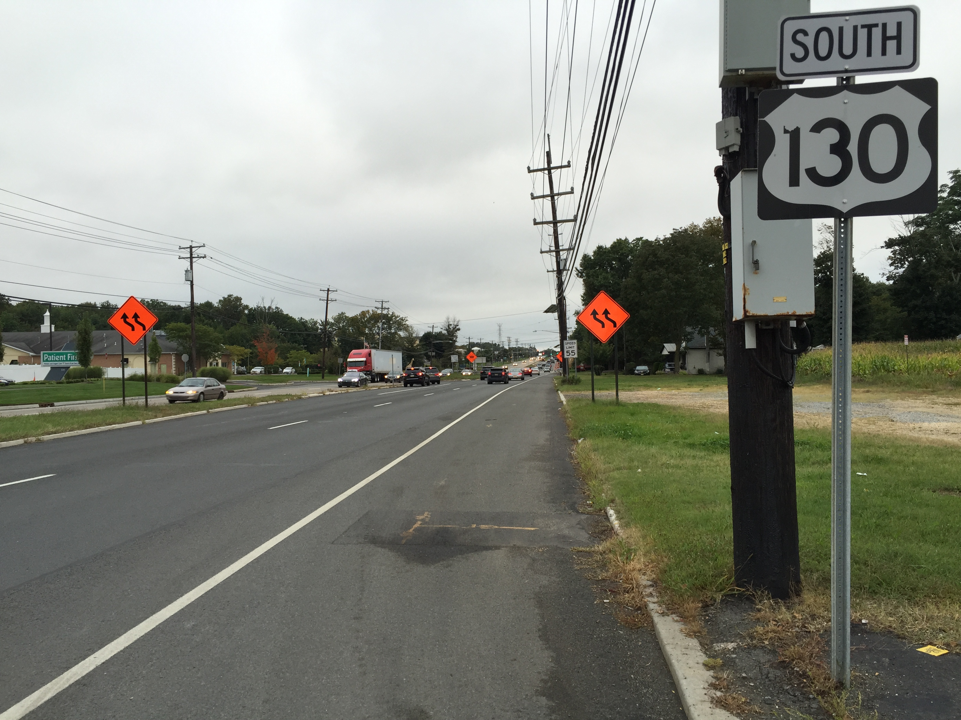 View south along U.S. Route 130 (Robbinsville Road) just south of Klockner Road in Hamilton Township, Mercer County, New Jersey